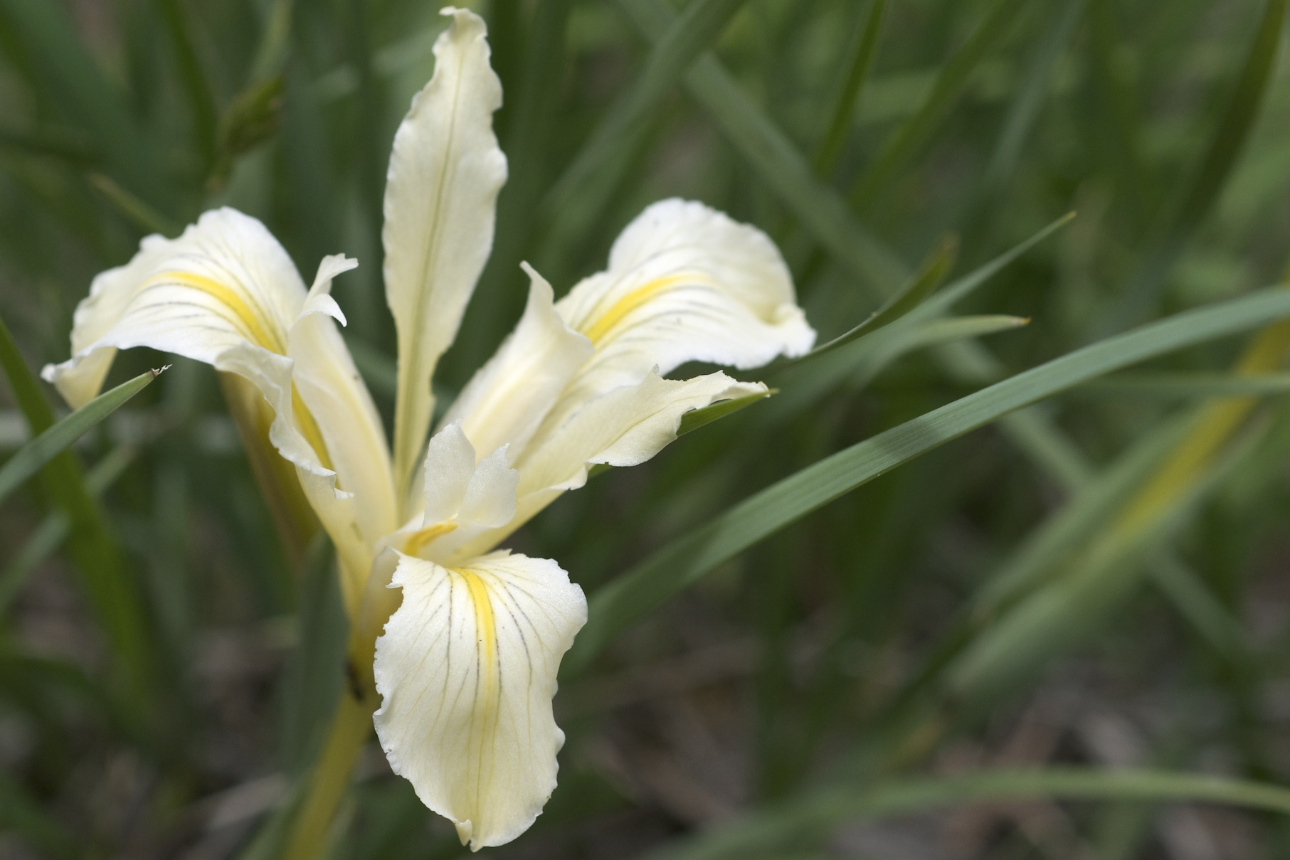 Iris macrosiphon - a species from California. Common name: Bowltube iris Photographed on Bentley Ridge Road, Mendocino County, Mendocino National Forest, California